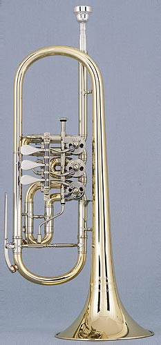 Trumpet in C, german model by Bernhardt Willenberg Markneukirchen